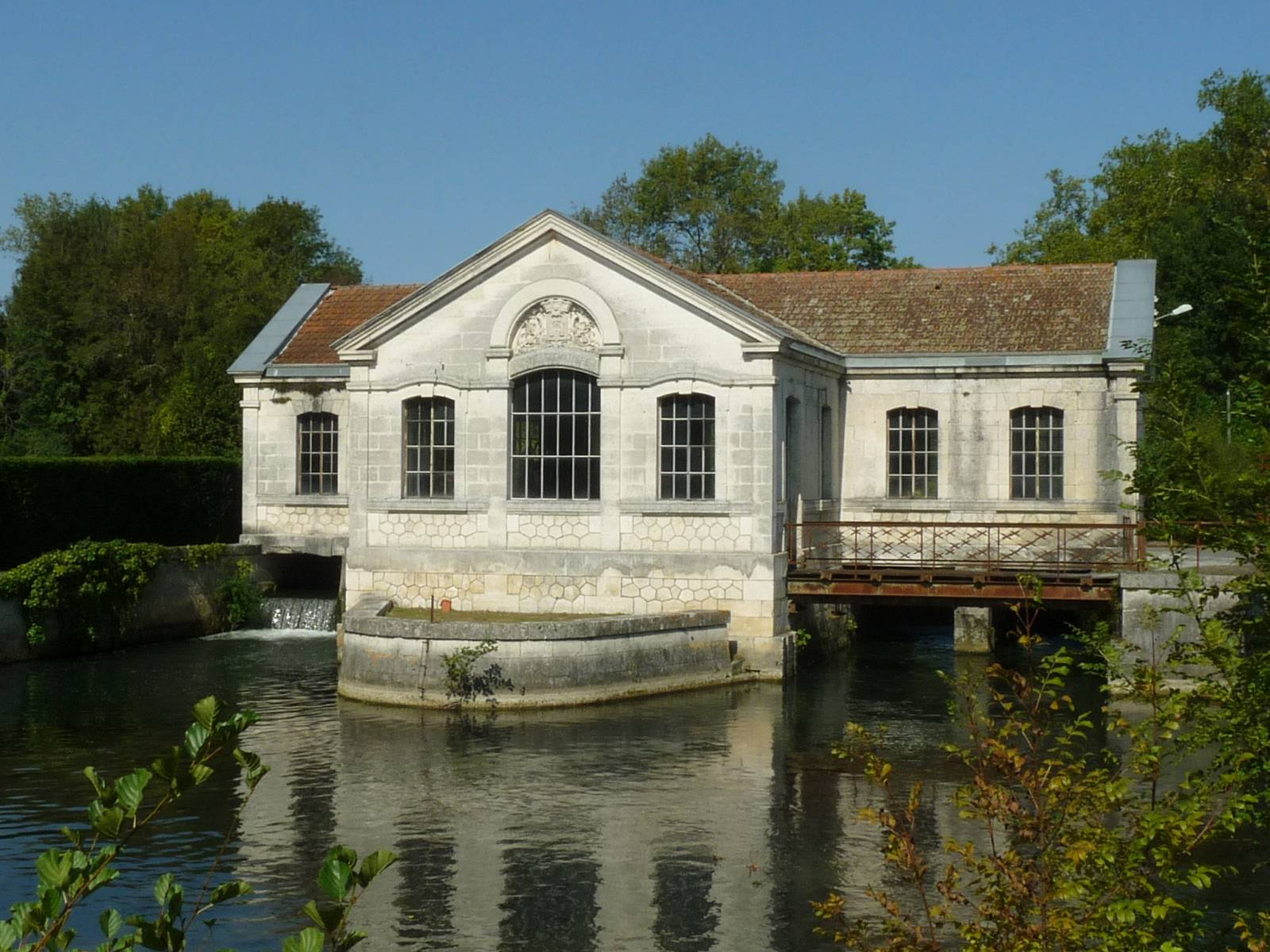 former water factory to bring up Touvre water for Angoulême, at Gond-Pontouvre, Charente, SW France